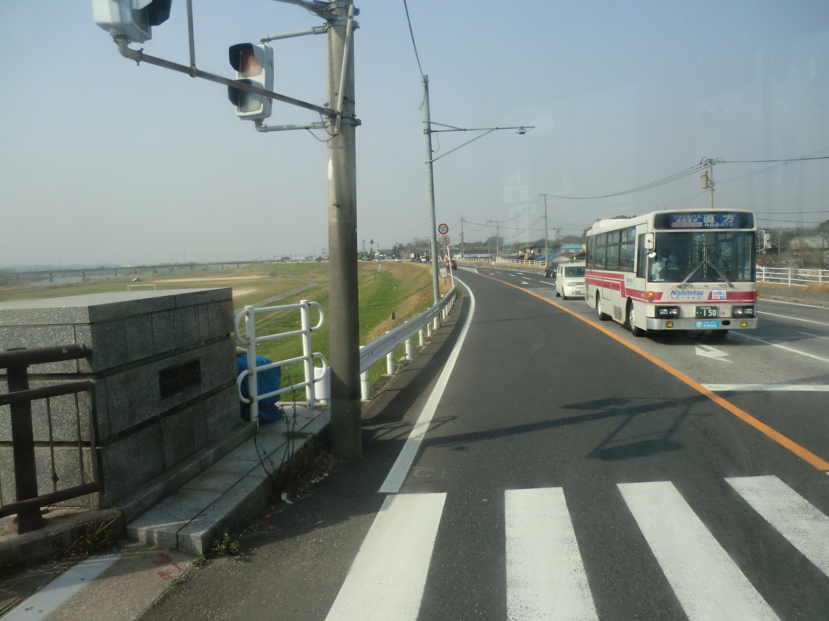 Fukuoka Prefectural Road No 73 running by Onga river in Nogata,Fukuoka,Japan.